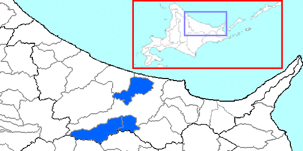 The location of Tokoro District in Abashiri Subprefecture, Hokkaido Prefecture, Japan.